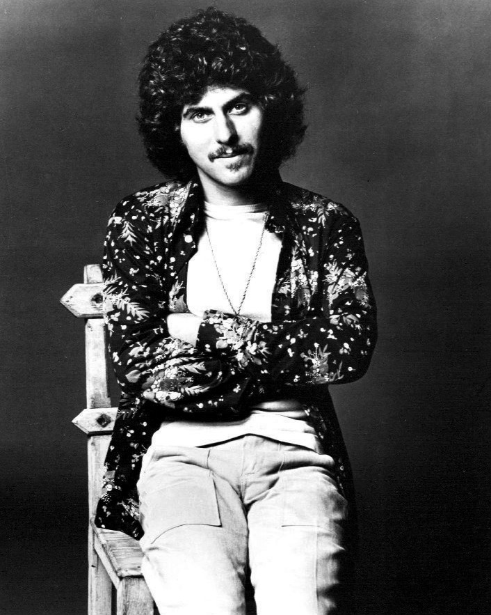 Photo of musician Johnny Rivers.